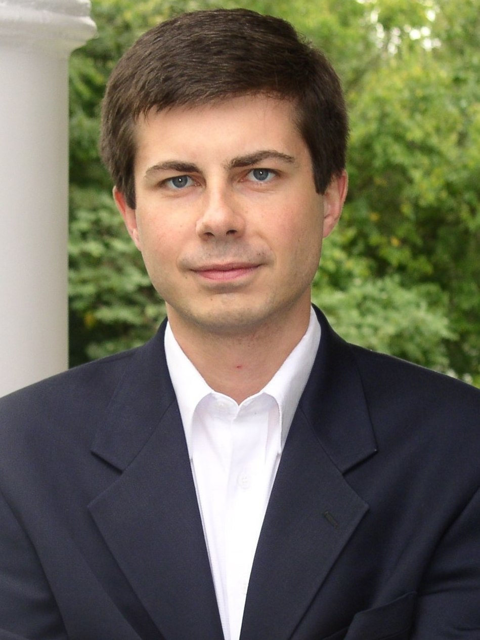 Pete Buttigieg portrait photograph